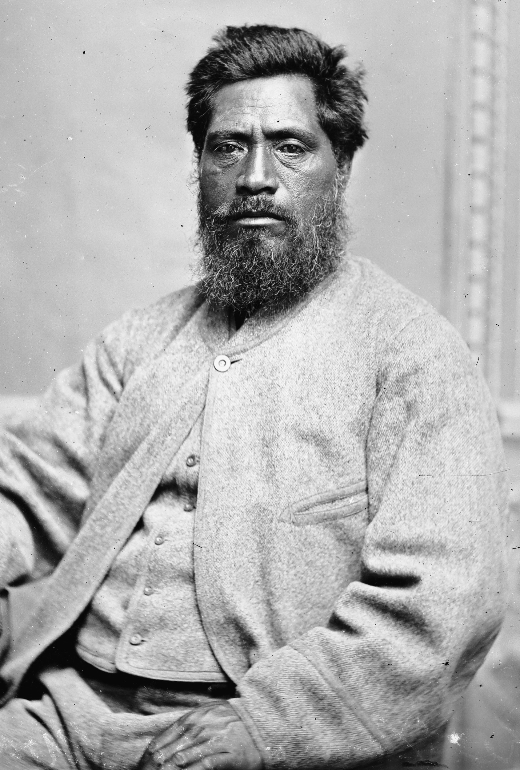 Seated carte de visite portrait of Ropata Wahawaha, taken by Samuel Carnell of Napier.